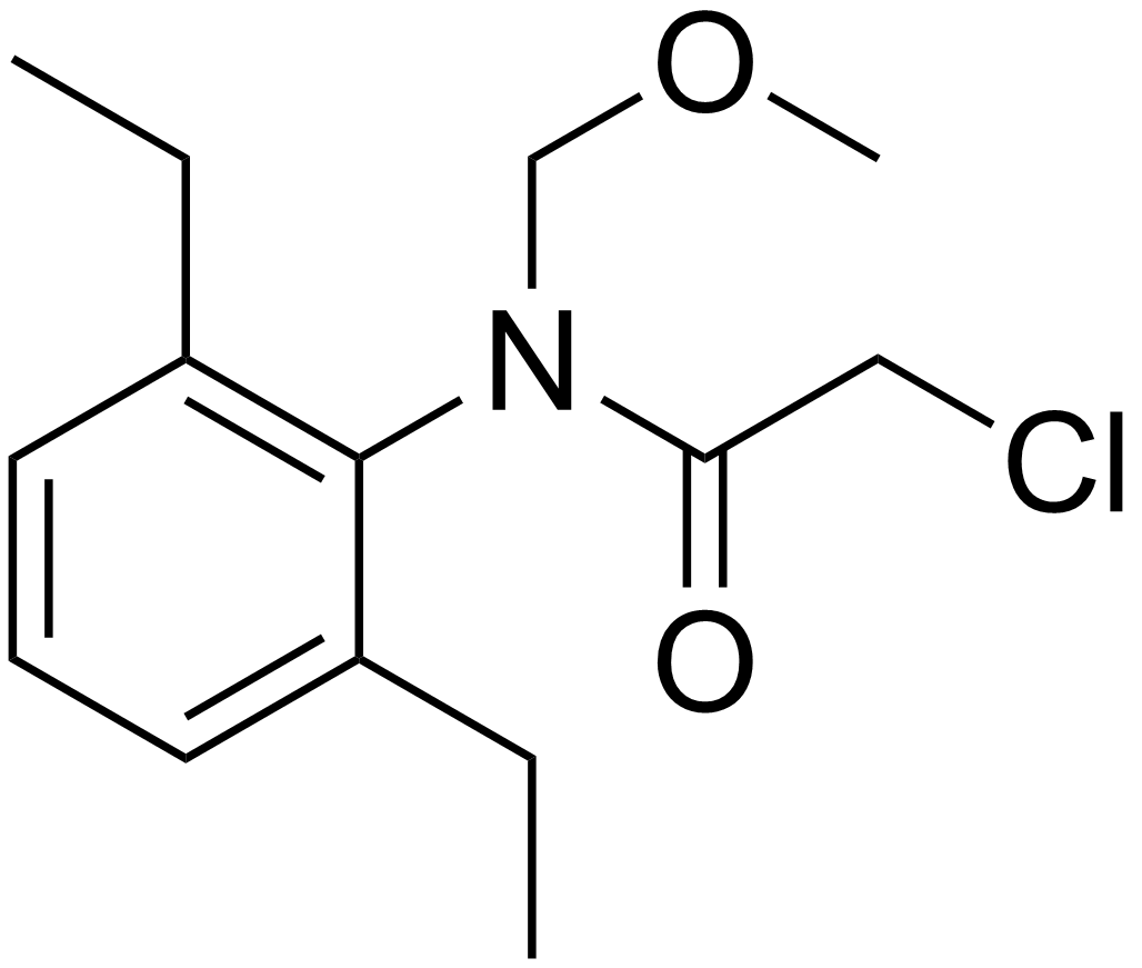 chemical structure of alachlor